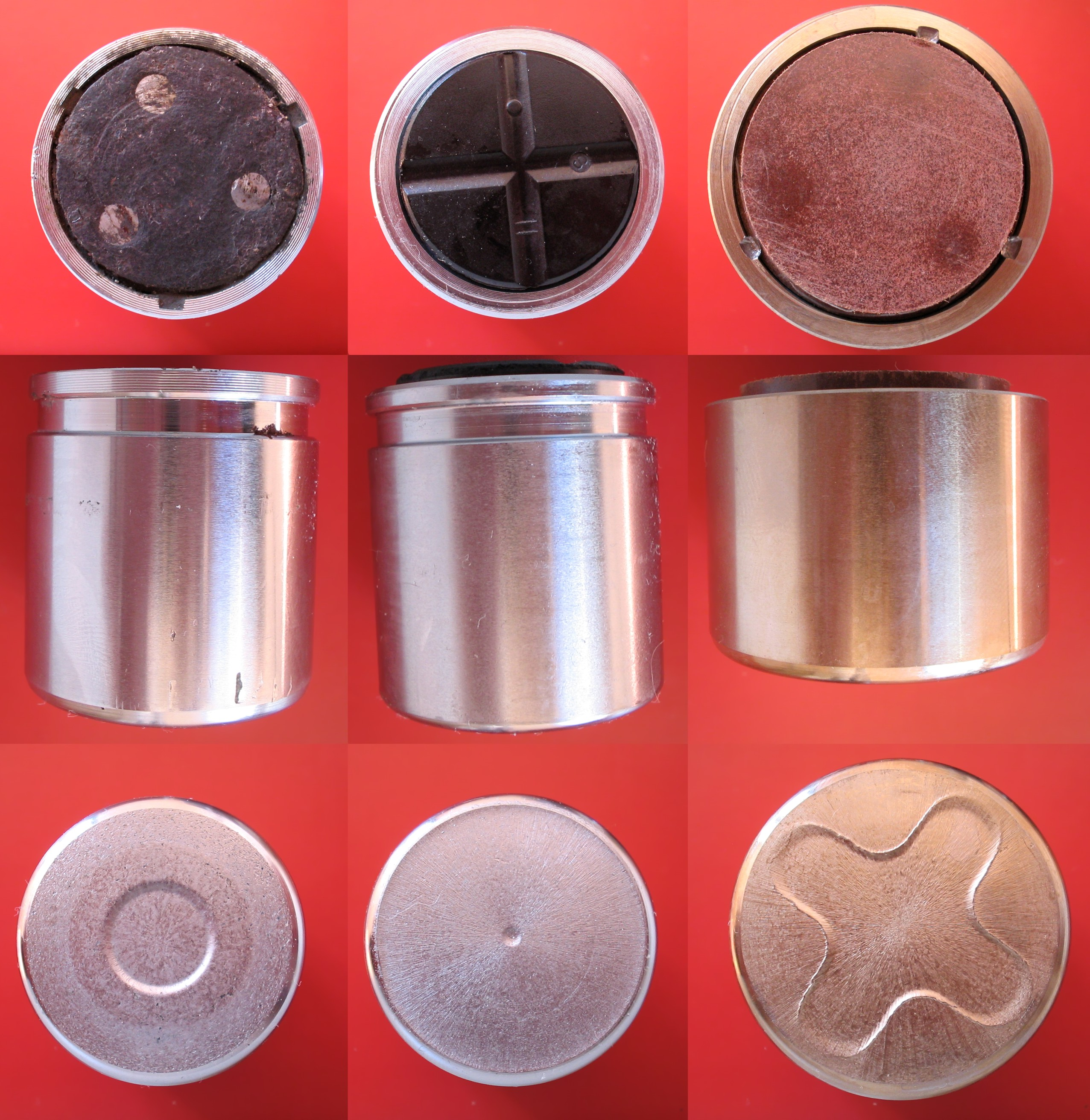 Piston brake caliper, to the left a piston consumed, at the center a piston with a different system, the right to a piston with different internal filling of soft material exactly as for the piston to the left, one can notice the throat for the use of the dust cover in pistons of the left and center.